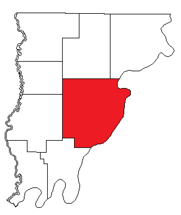 Map of MtCarmel Precinct, Wabash County.